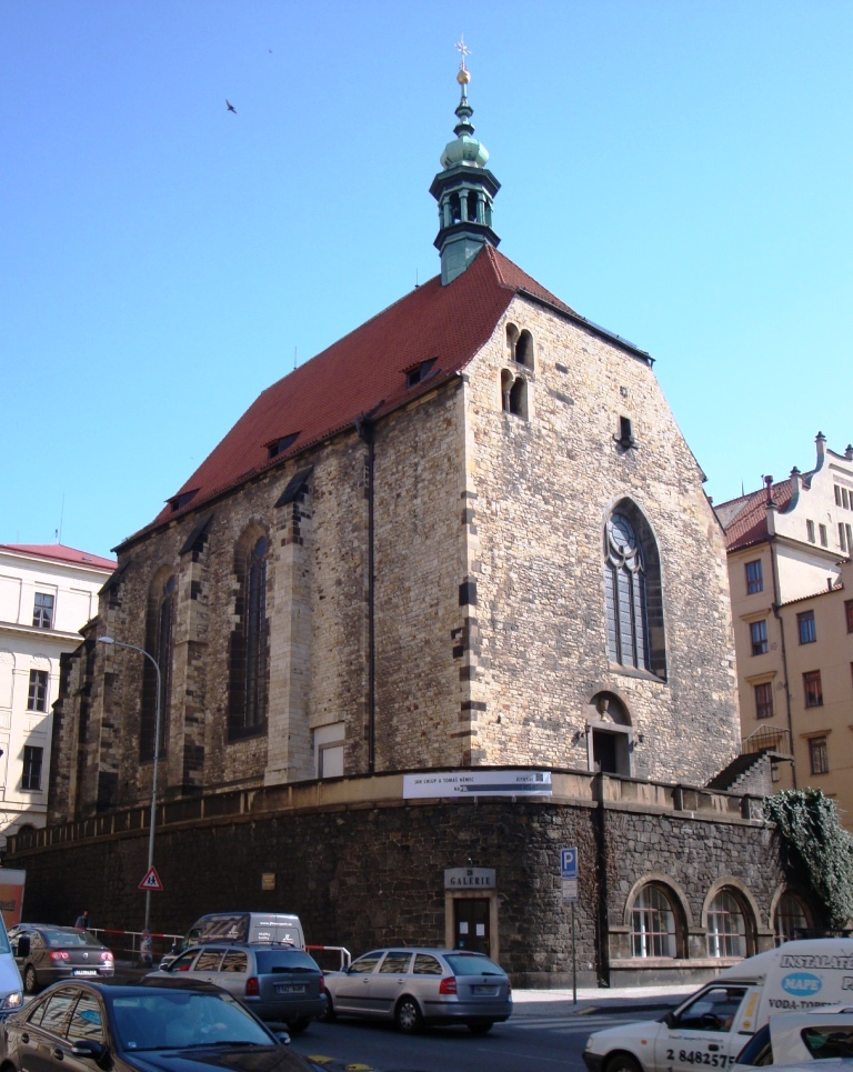 Prague New Town, St Wenceslas church Na Zderaze